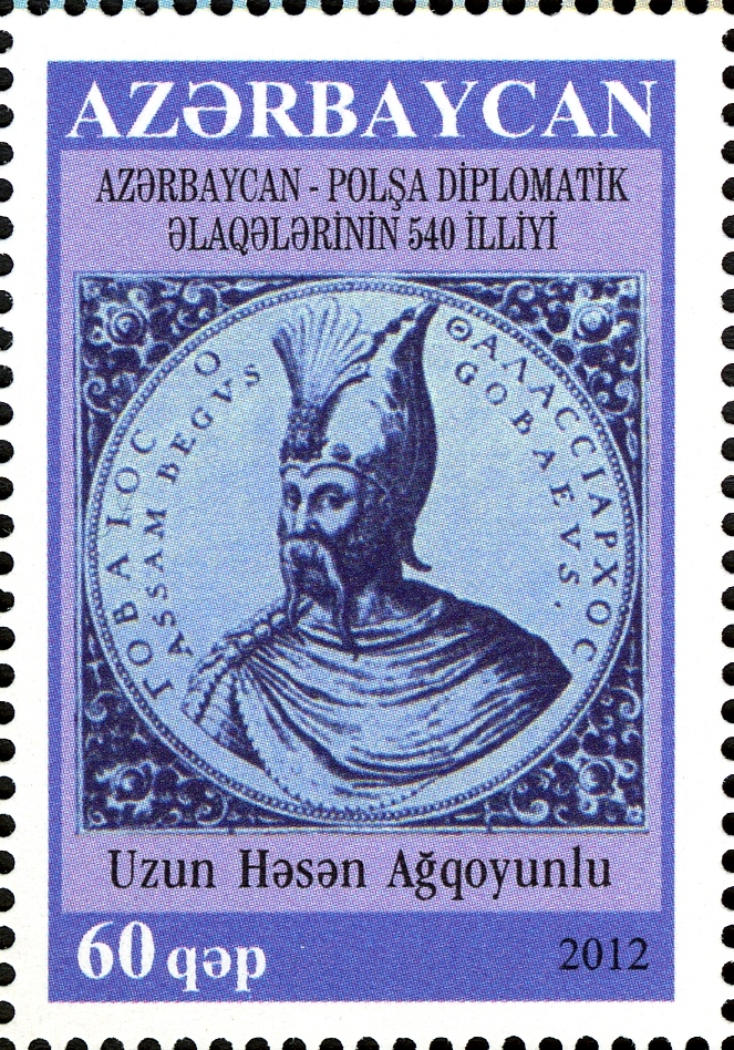 Azerbaijan - Poland diplomatic relations. N 1057 - 60 qapik. There are pictured a portrait of Hasan Bayandur -"Uzun Hasan" (1453-1478) on the stamp. Uzun Hasan united Aq Qoyunlu dynasty and created Aq Qoyunlu empire in the territory of Azerbaijan (1468-1501) Both countries founded diplomatic relations by these rulers 540 years ago. The picture shows Assambeg (EI: Ḥasan Pasha), not Uzun Hasan. The picture is taken from a work by Jean-Jacques Boissard (1528-1602). The Latin text on page 219 clearly identifies Assambegus as the most famous pirate of his time and commander of Suleiman I. From this image come a number of replicas that are in the literature and on the Internet